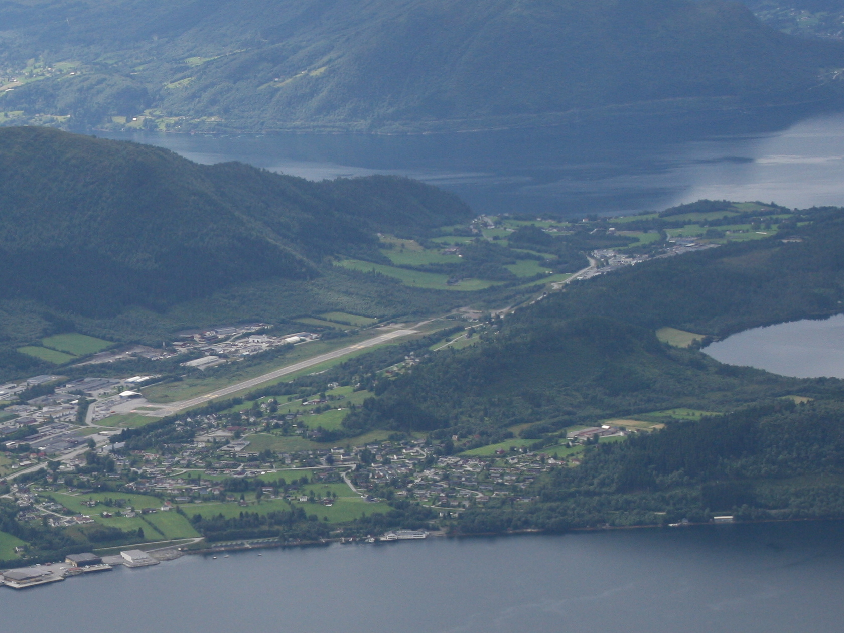 Hovdebygda, Ørsta, NorawyNorsk nynorsk: Hovdebygda, sett frå Saudehornet i august 2010